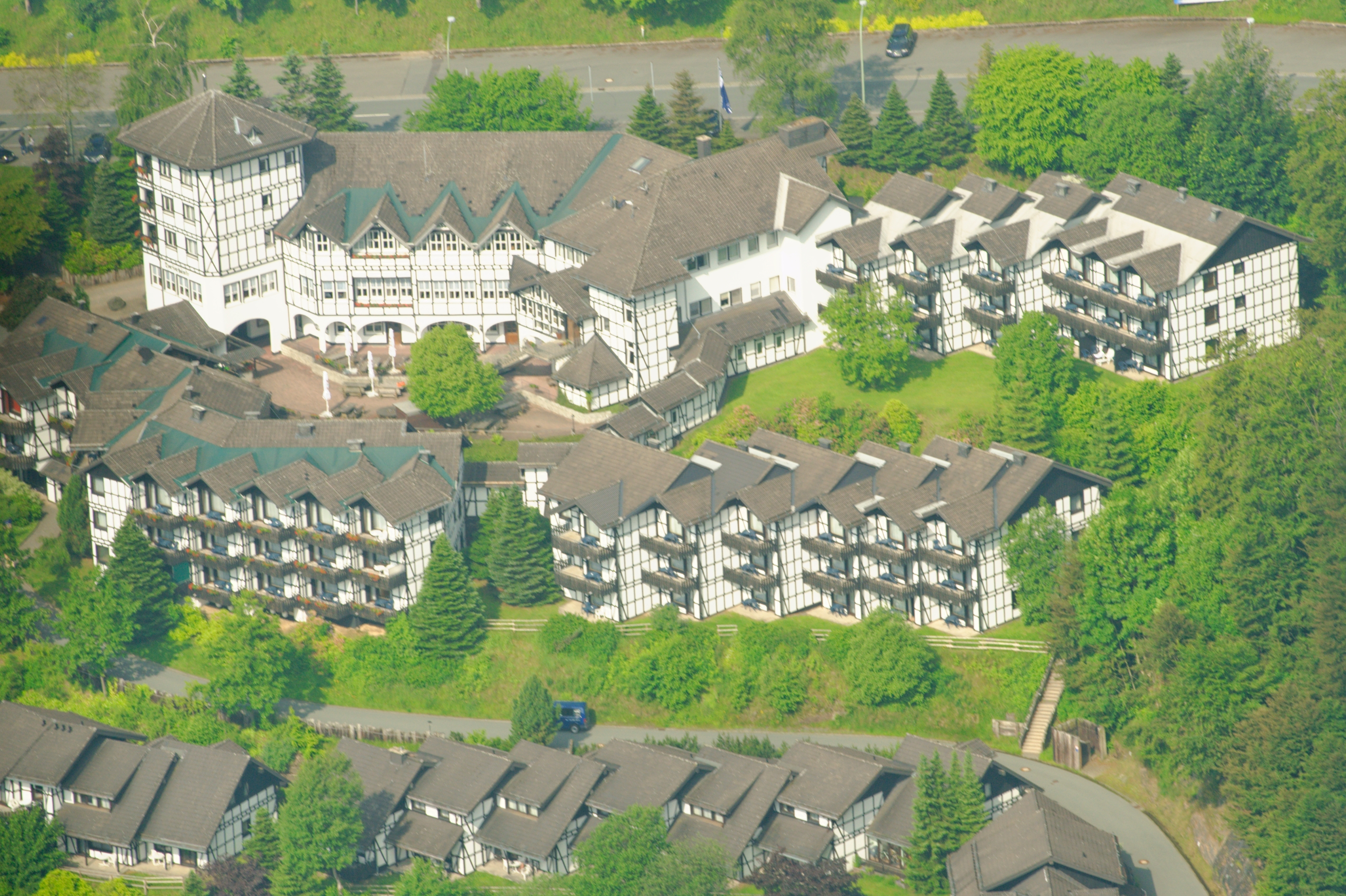 Fotoflug Sauerland-Ost, Dorint Hotel, Neuastenberg The making of this document was supported by the Community-Budget of Wikimedia Germany.